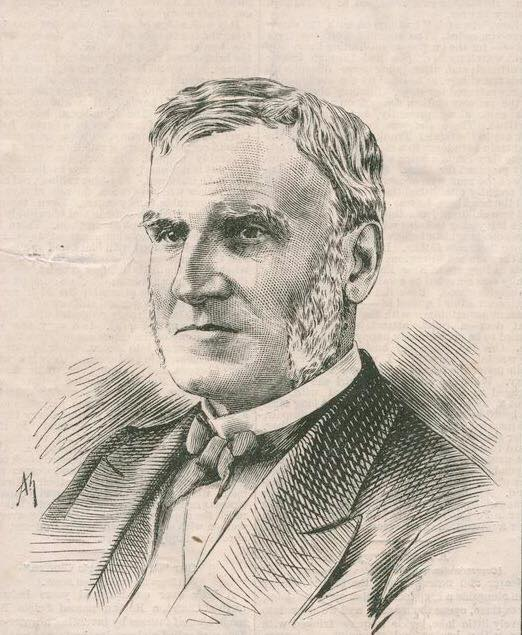 Rev. William Ives Budington (Apr. 21, 1815-Nov. 29, 1879), cropped from original